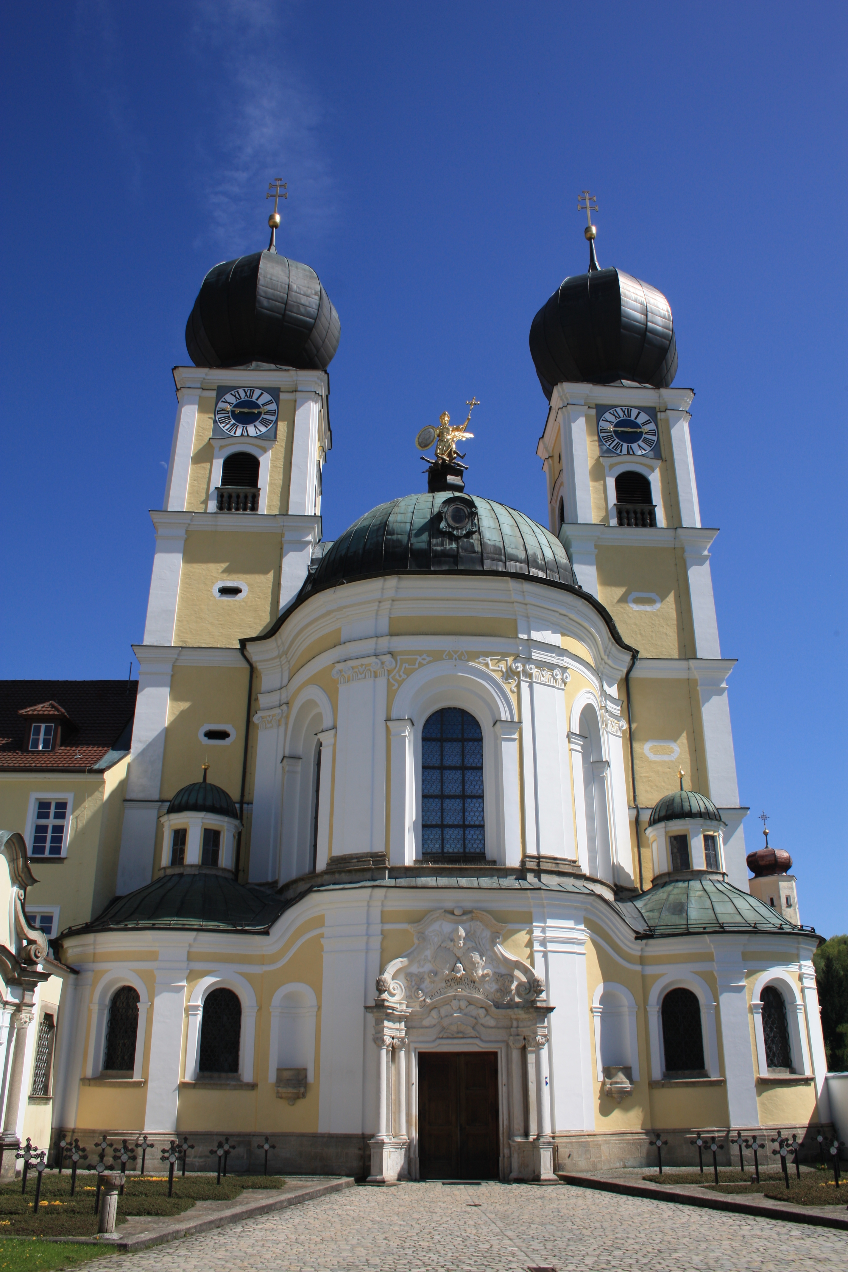 This is a photograph of an architectural monument.